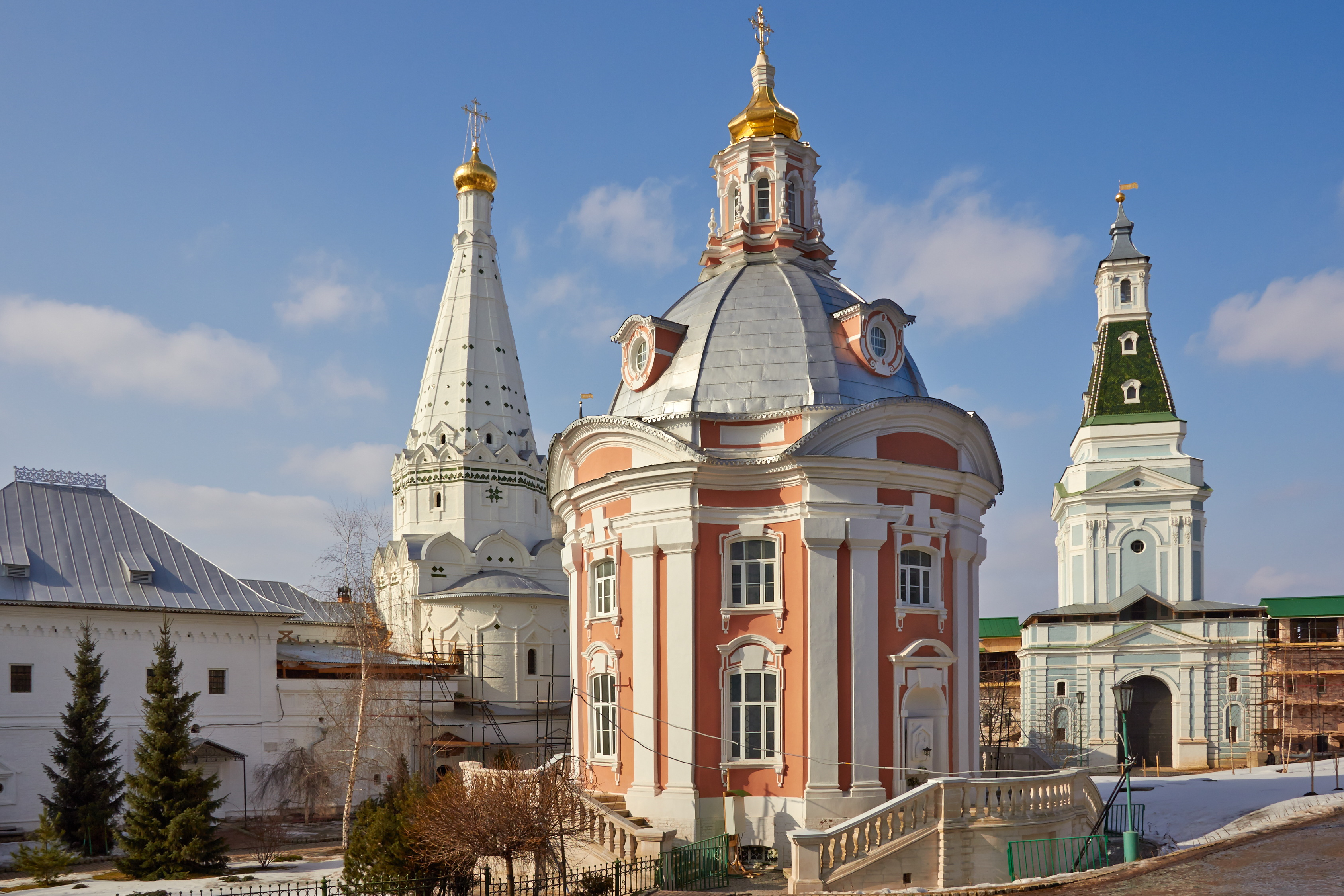 Church of the Theotokos of Smolensk, Trinity Lavra of St. Sergius